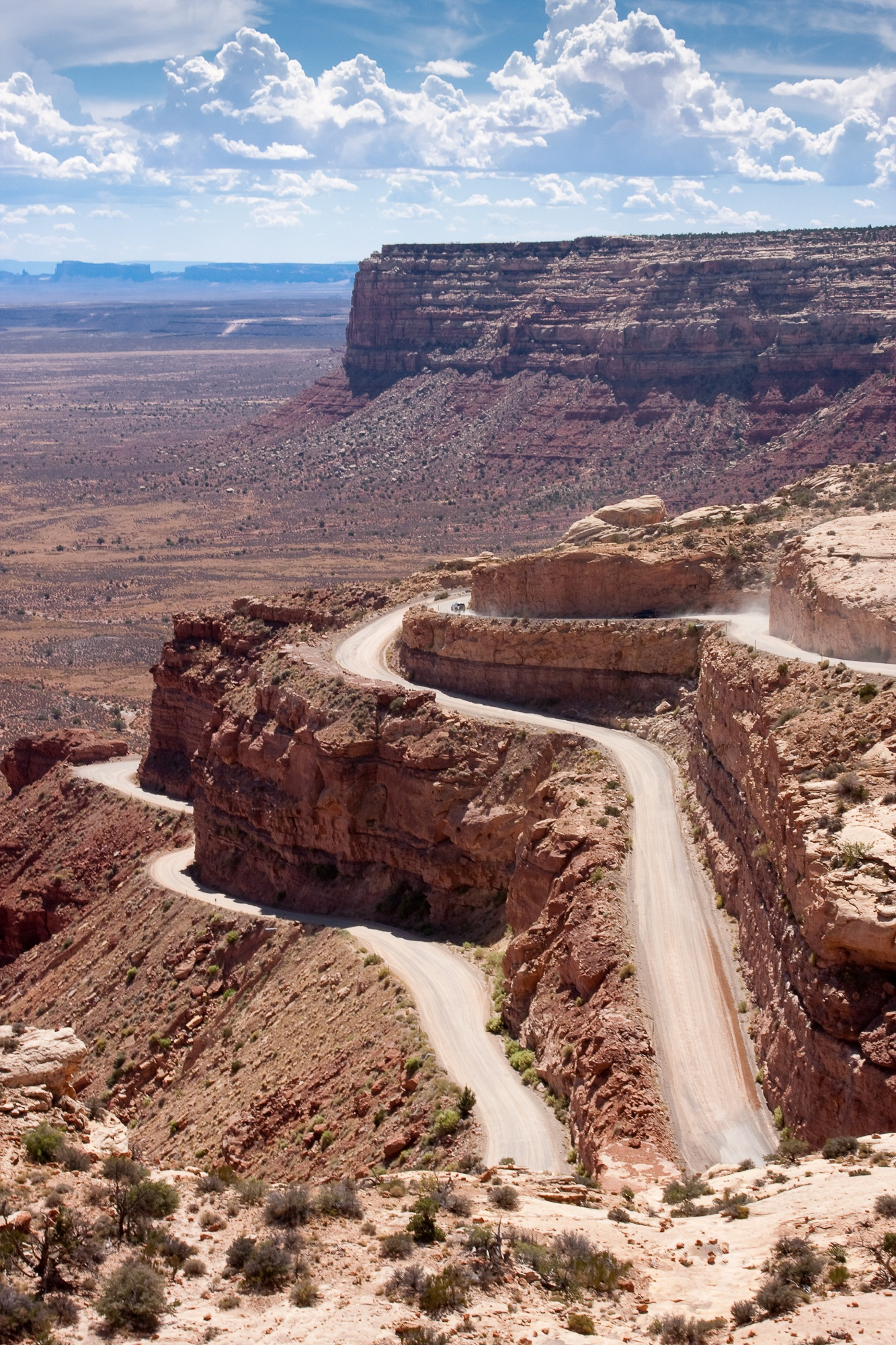 Moki Dugway (A.K.A. Mokee Dugway) on State Route 261 in San Juan County, Utah. The highway descends/climbs 1,100 feet in just 3 miles on a dirt road carved out of steep rock cliffs.